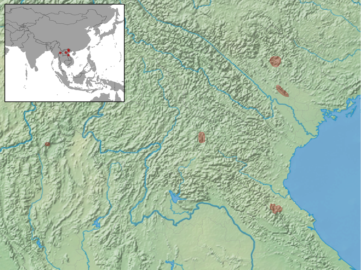 geographic distribution of Arielulus aureocollaris